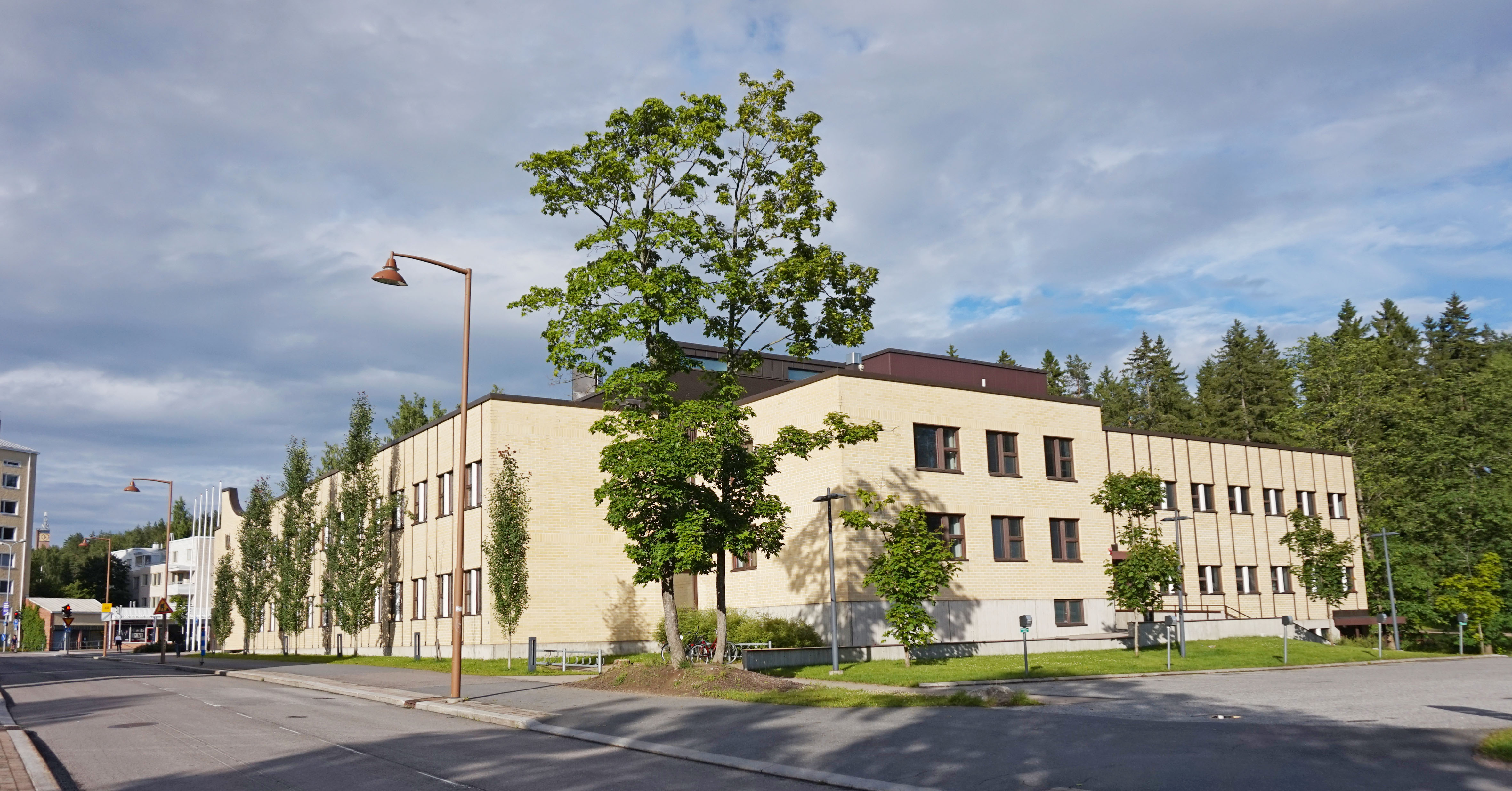 Music campus of Jyväskylä University of Applied Sciences.This photograph was taken with a Sony ILCE-5000